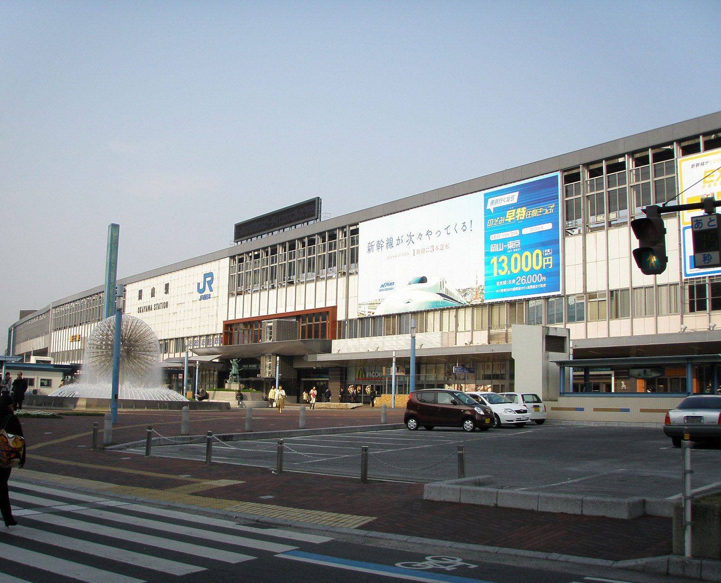 West Japan Railway Sanyō Shinkansen Sanyō Main Line & Uno Line（Seto-Ohashi Line） & Tsuyama Line & Kibi Line Takatsuki Station Building North Gate